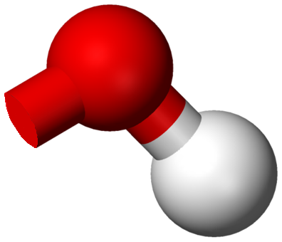 Hydroxyl radical.